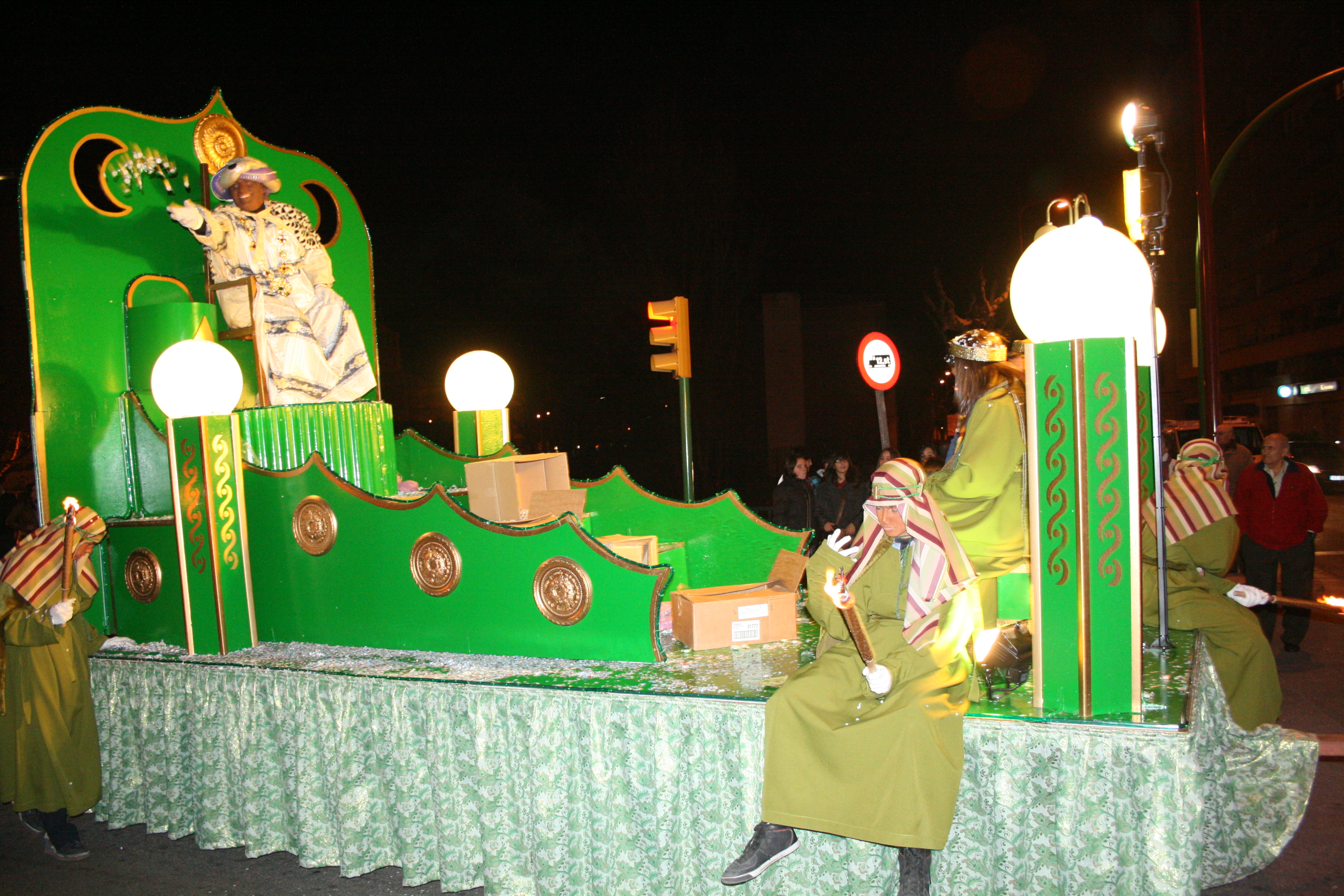 Cavalcade of Magi, Calatayud, Spain